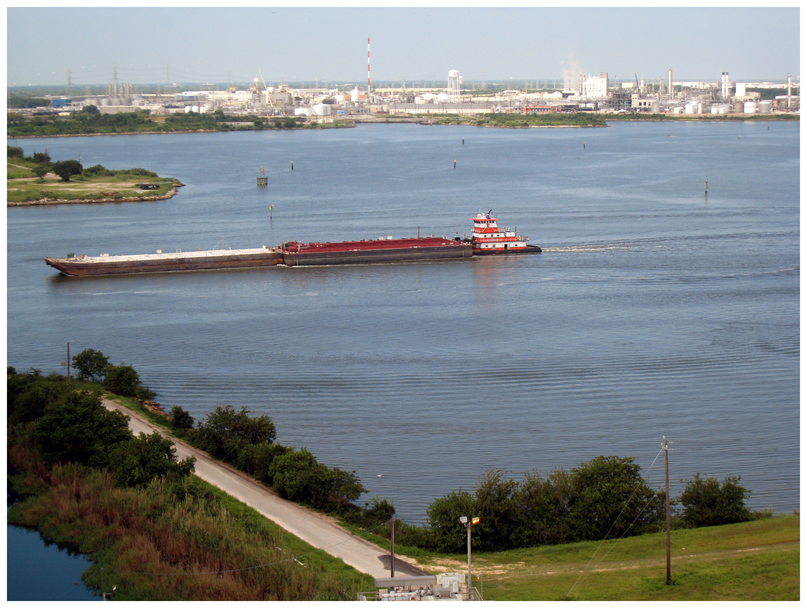 Photo is from the Fred Hartman bridge south side heading south with DuPont Complex on the far shore. A tow boat is moving a barge down the channel towards Galveston, Texas.